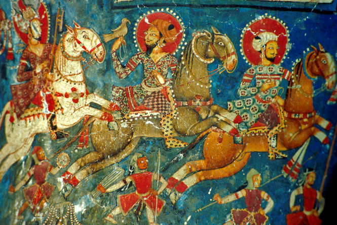 Alchi, Mural paintings, 11th century painting